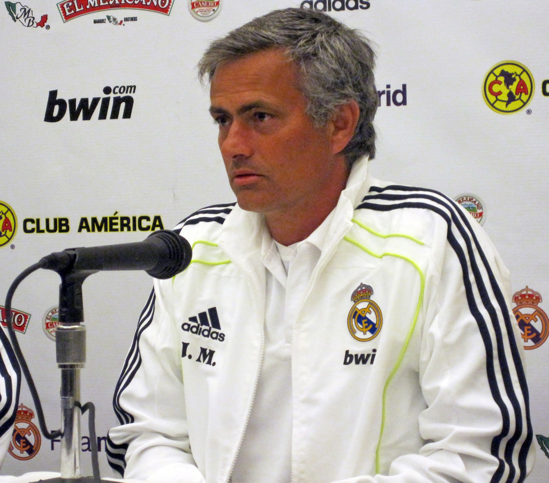 José Mourinho